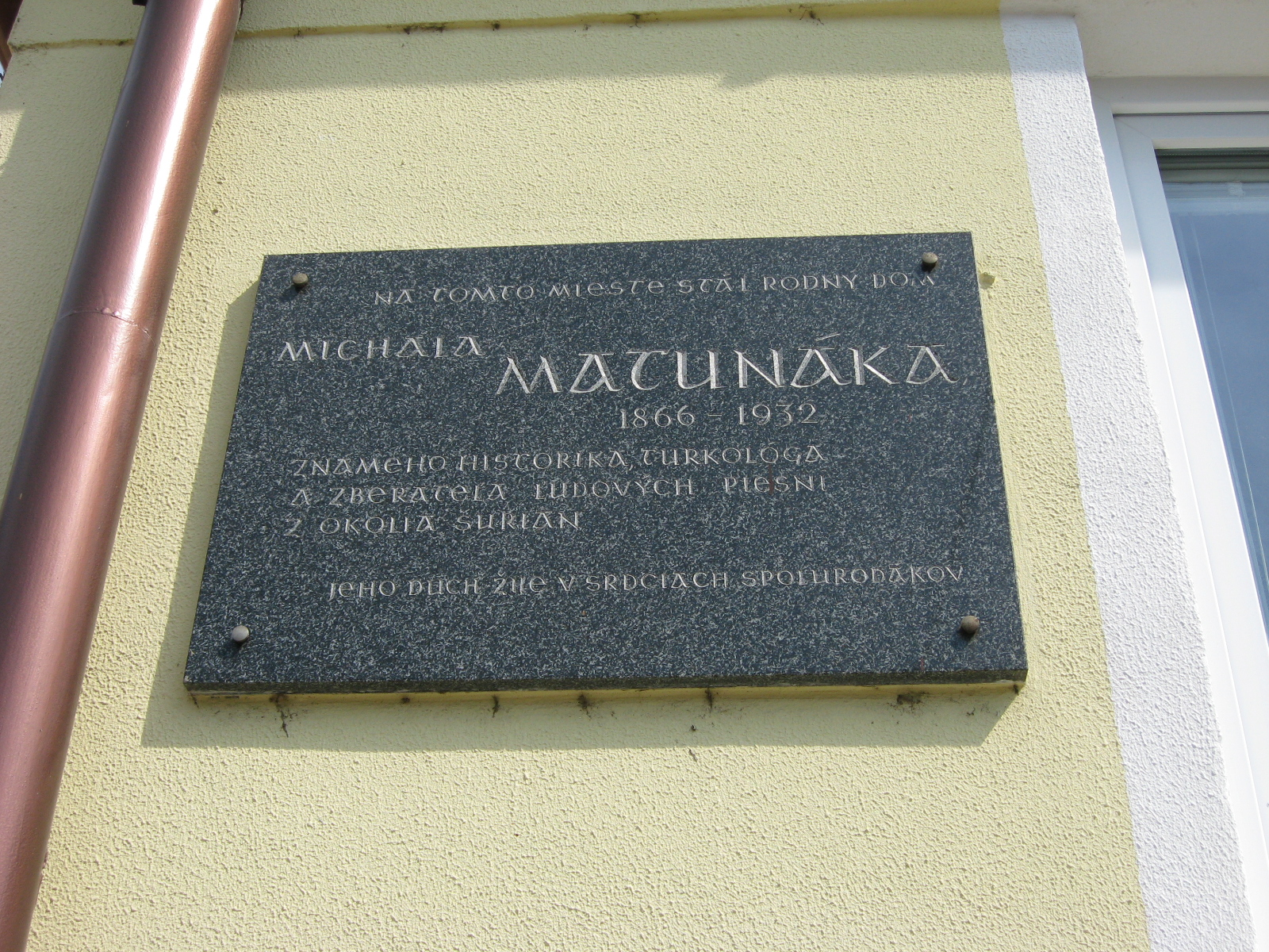 The translation of the inscription: "In this place stood the birth house of Michal Matunák (1866-1932), who was famous historian, turkologist and collector of folk songs of Šurany district. His soul lives in the hearts of his compatriots."